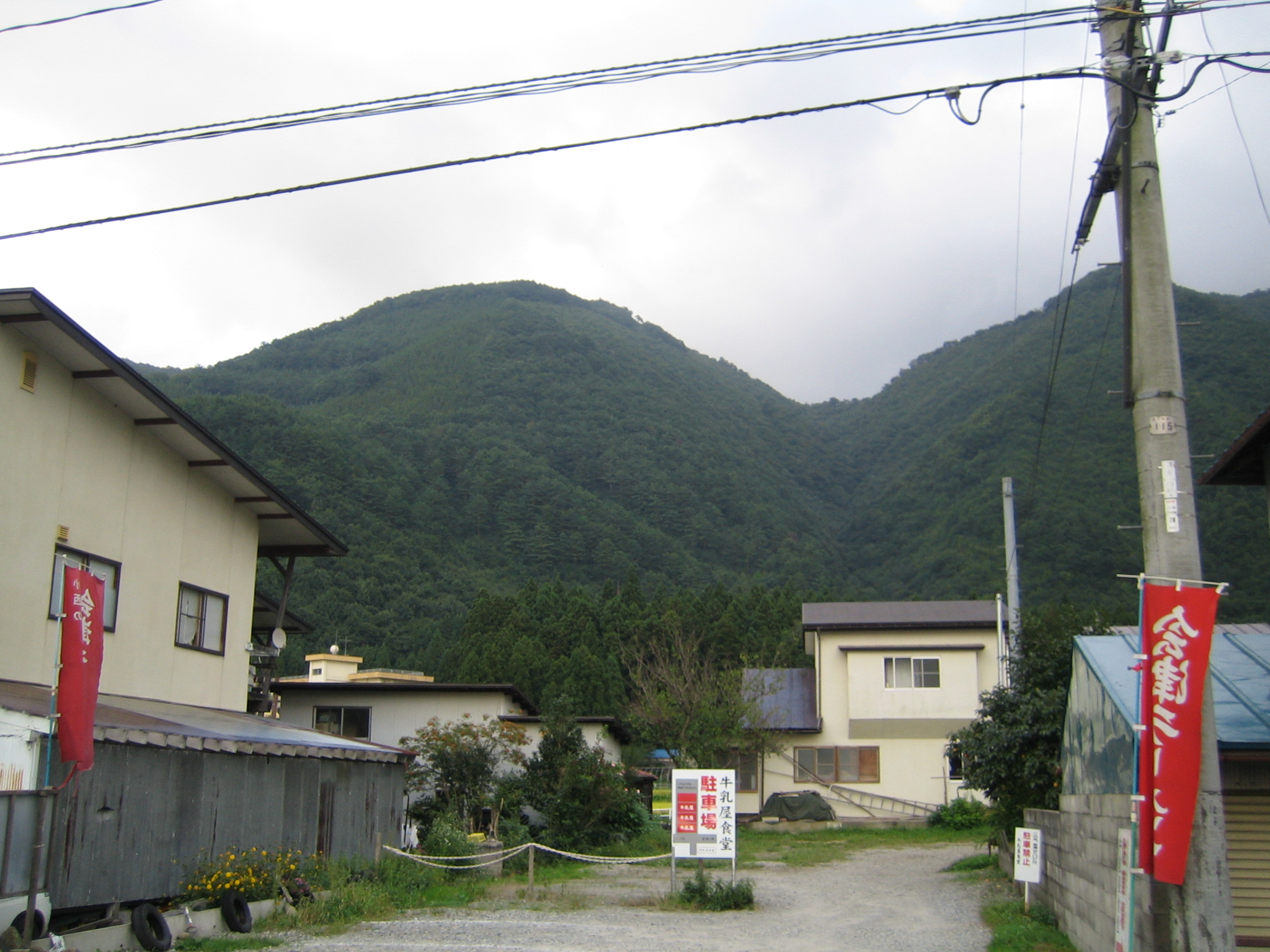 This is a landscape of Oto-town of Aizuwakamatsu, Fukushima, Japan.